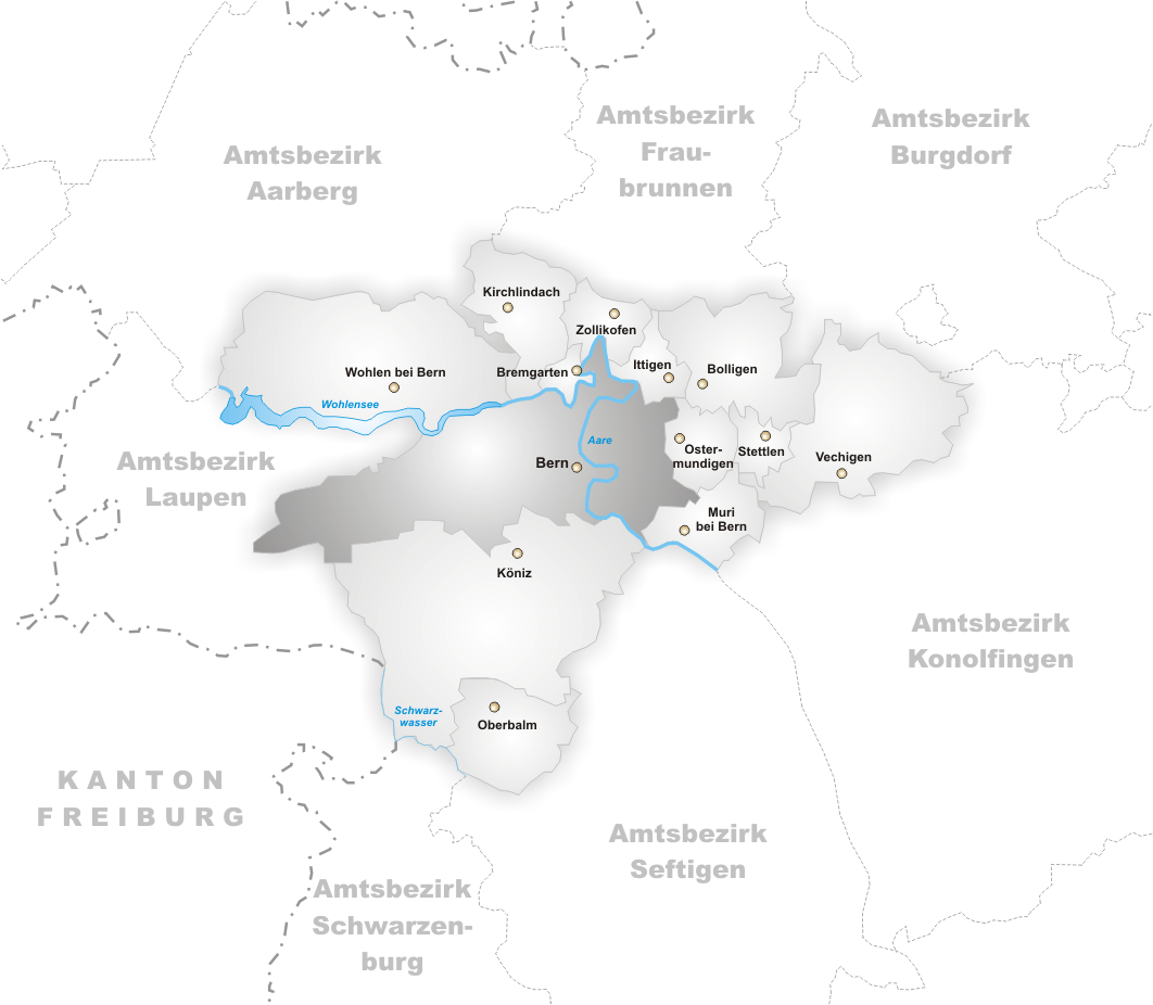 Municipality Bern